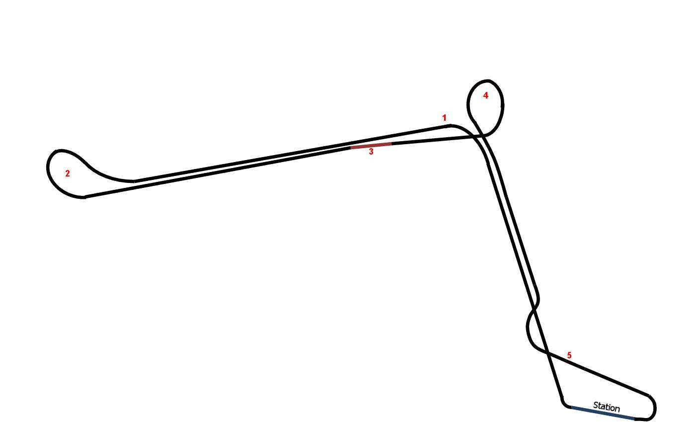 A basic 'sketch' or blueprint layout of Silver Star (roller coaster in Europa Park, Rust, Germany). Shows certain elements related to the article 'Silver Star (roller coaster)' on English Wikipedia.